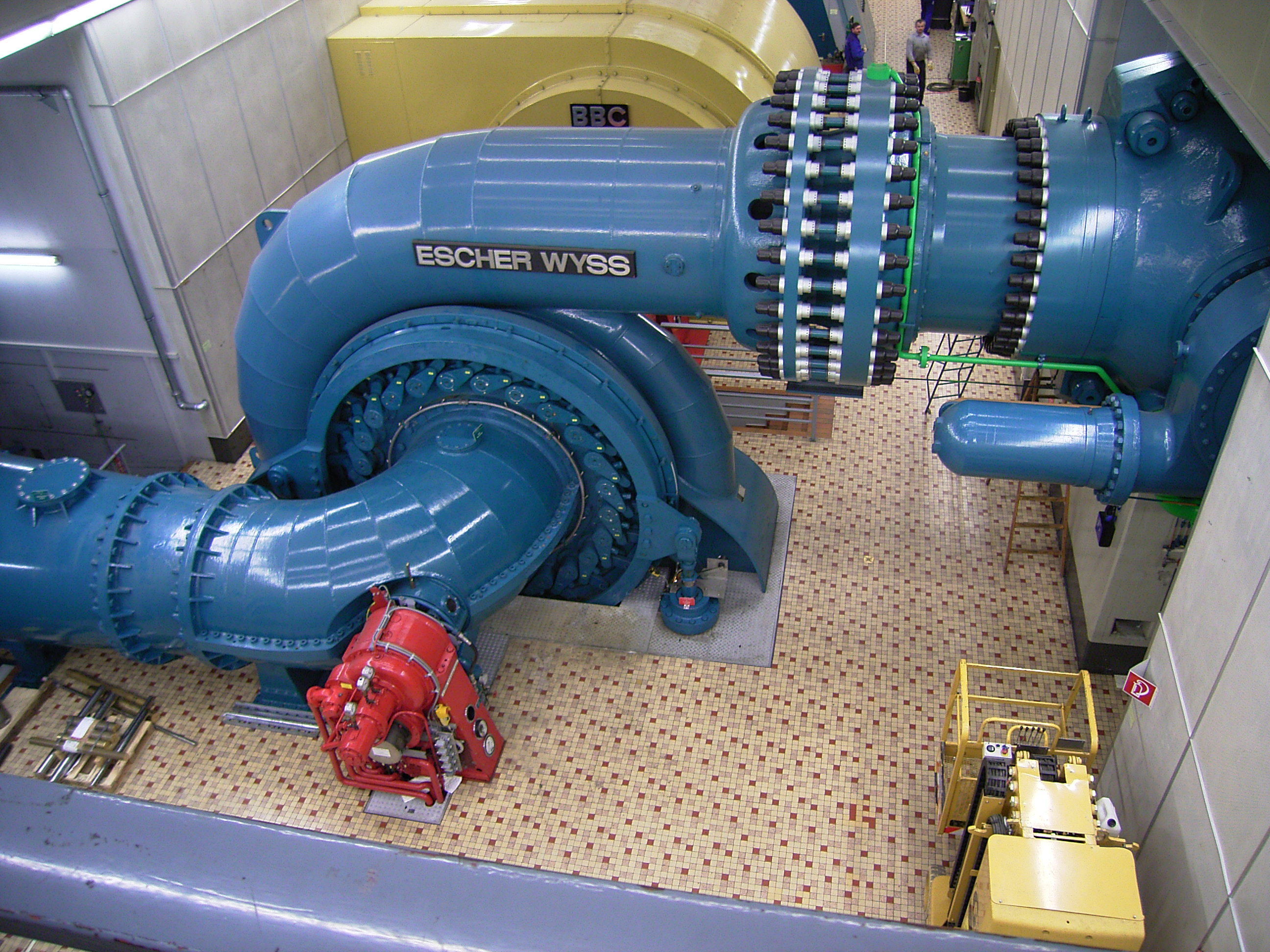 a turbine at the pumped storage plant Bad Säckingen of Schluchseewerk AG